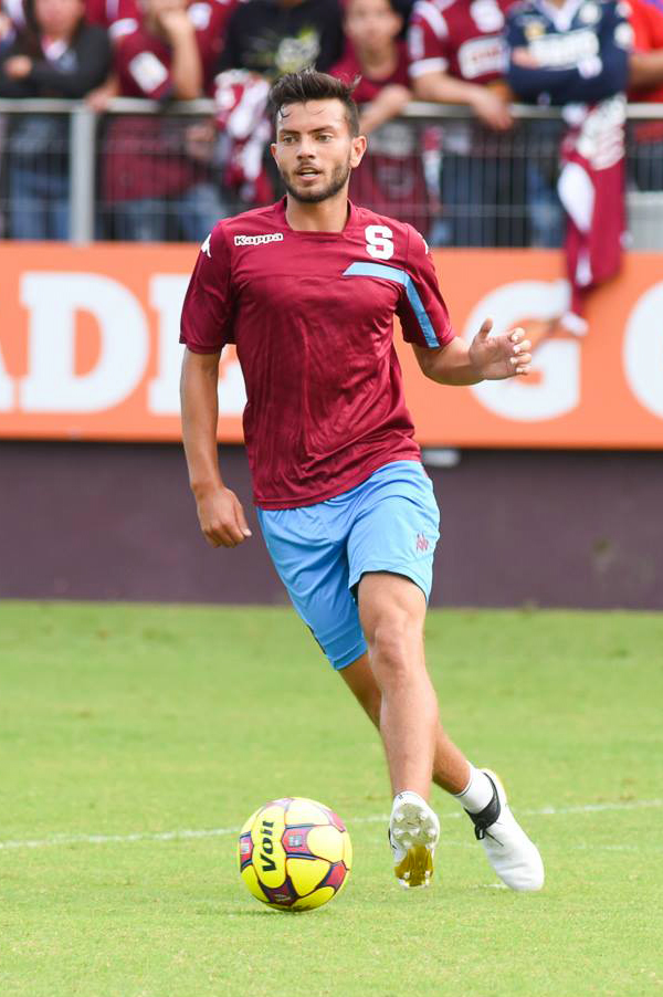 Keven Alemán, Canadian footballer.